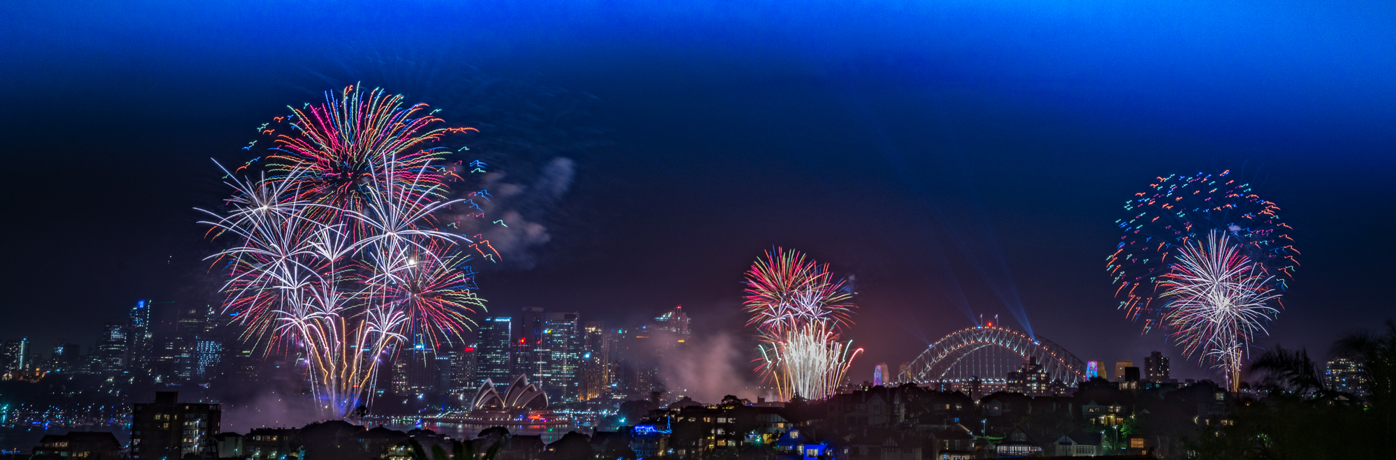 Sydney New Years Eve celebrations 2018